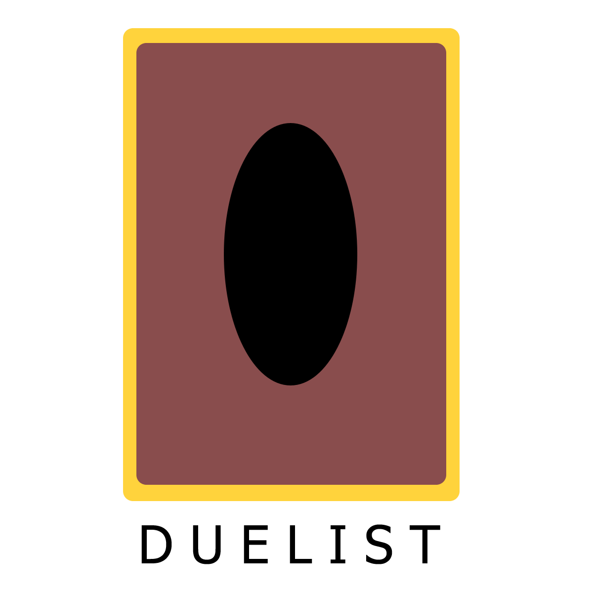 A depiction of a yugioh card with the word "DUELIST" below it